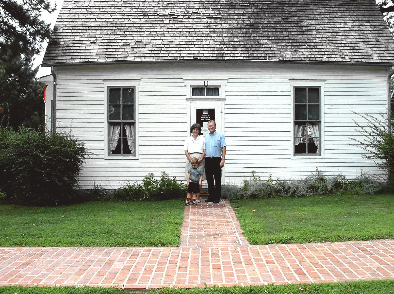 House in Lamar MO where President Harry S. Truman was born.